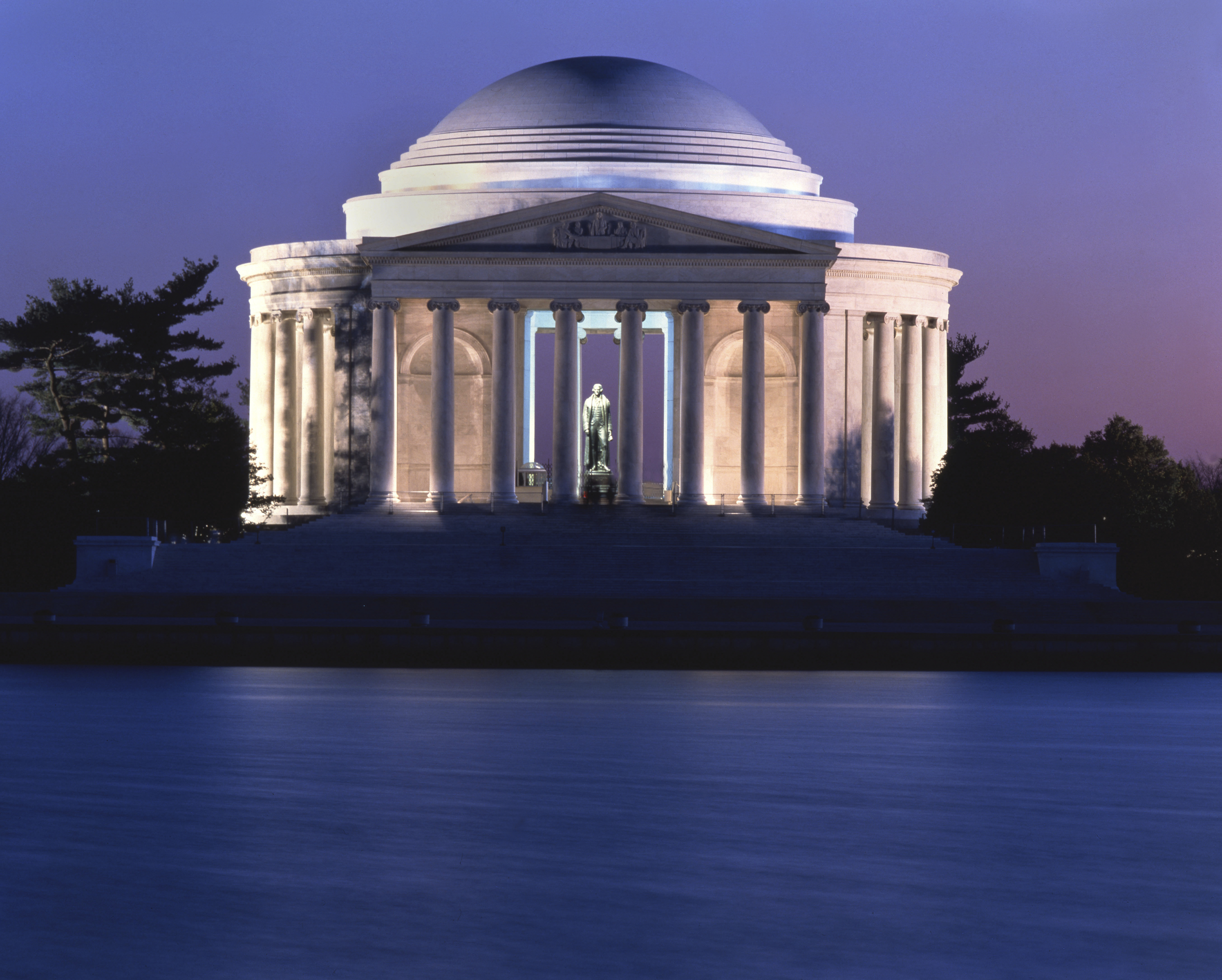 Jefferson Memorial at dusk, Washington, DC by Carol M. Highsmith Metadata from the Library of Congress: Title: Jefferson Memorial, Washington, D.C. Creator(s): Highsmith, Carol M., 1946-, photographer Date Created/Published: [between 1980 and 2006] Medium: 1 transparency : color ; 4 x 5 in. or smaller. Reproduction Number: LC-DIG-highsm-12557 (digital file from original) LC-HS503-1296 (color film transparency) Rights Advisory: No known restrictions on publication. Call Number: LC-HS503- 1296 (ONLINE) [P&P] Repository: Library of Congress Prints and Photographs Division Washington, D.C. 20540 USA Notes: Title, date, and keywords provided by the photographer. Credit line: Photographs in the Carol M. Highsmith Archive, Library of Congress, Prints and Photographs Division. Gift and purchase; Carol M. Highsmith; 2011; (DLC/PP-2011:124). Forms part of the Carol M. Highsmith Archive. Subjects: United States--District of Columbia--Washington (D.C.) America. Format: Transparencies--Color--1980-2010. Collections: Highsmith (Carol M.) Archive Part of: Highsmith, Carol M., 1946- Carol M. Highsmith Archive.